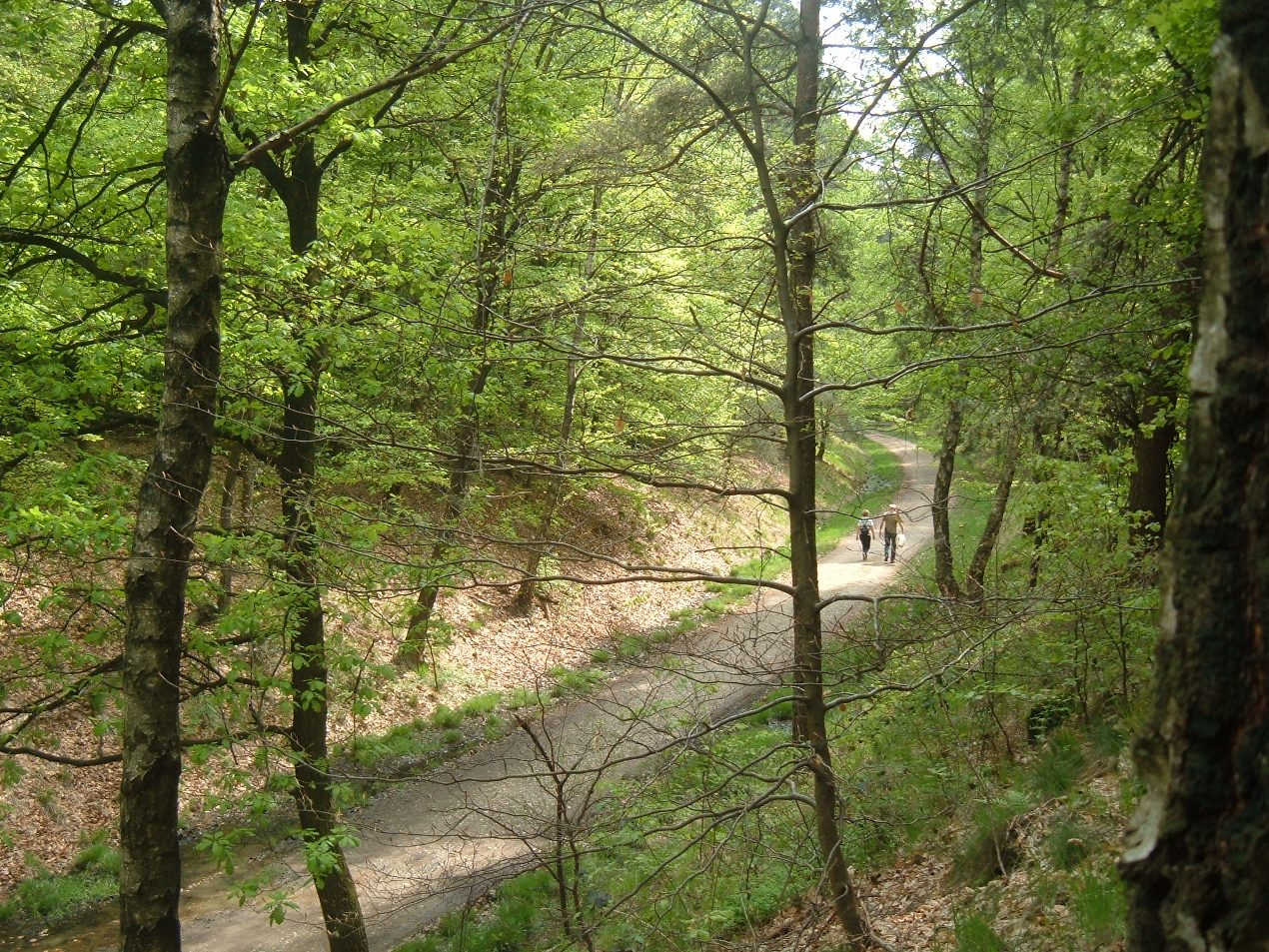 Forest Königsforst near Cologne, Germany.